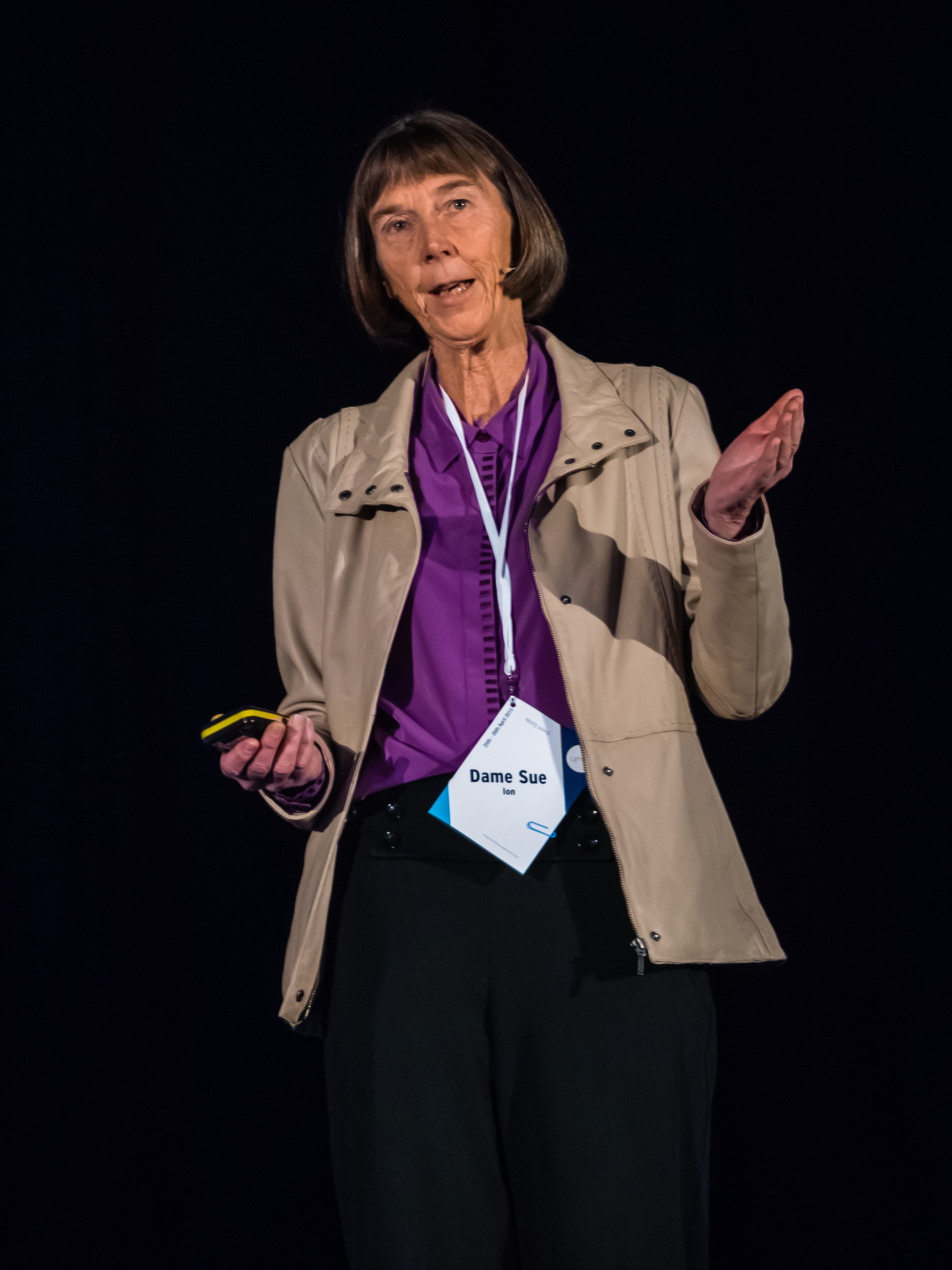 Dame Sue Ion speaking at the QED: Question Explore Discover conference at The Palace Hotel, Manchester on 26 April 2015